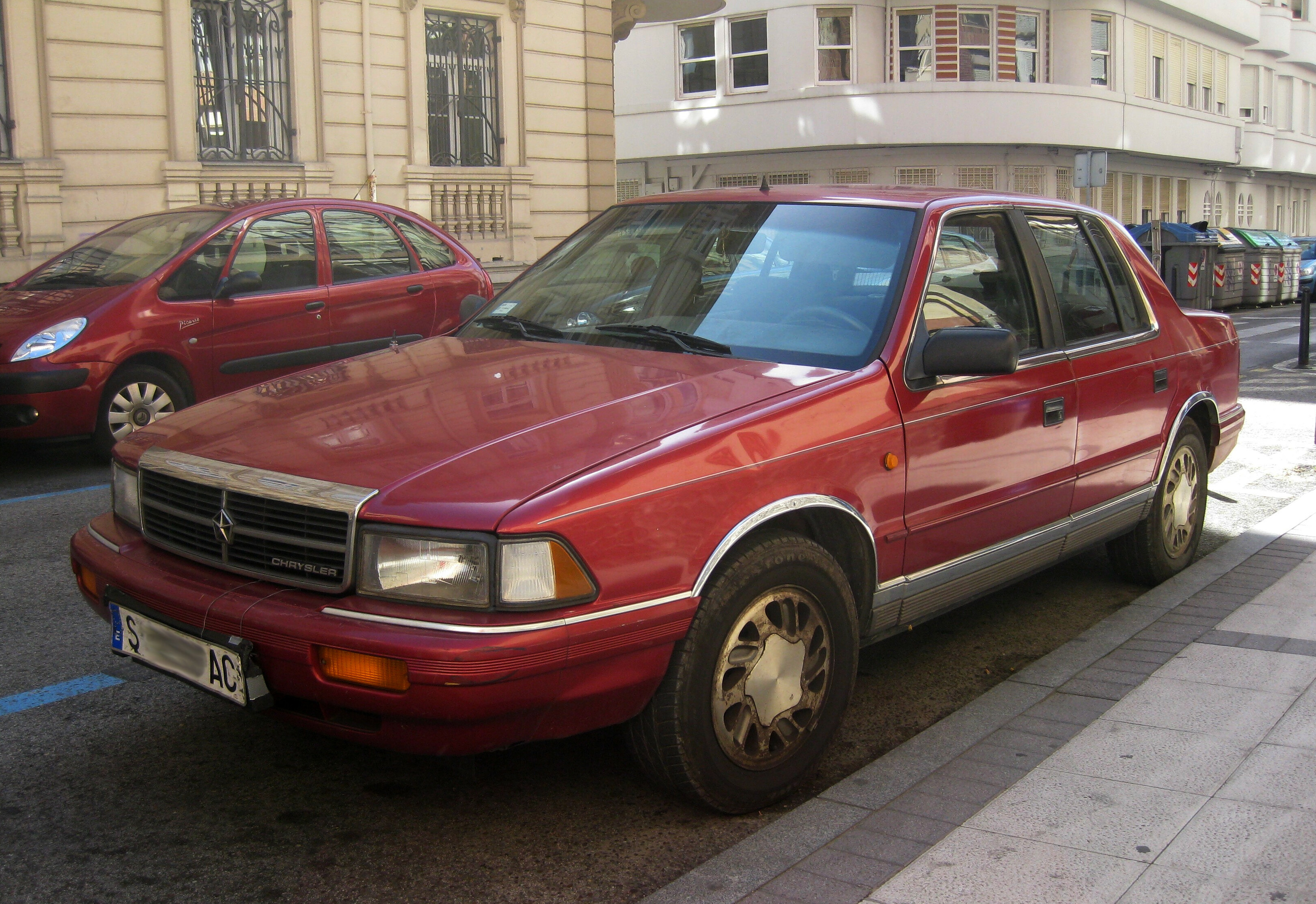 I love this Chrysler model, the Saratoga was a rebadged Spirit but for the European market, it's so hard to find them... This one had a 1993 plate from Santander (Cantabria), and was also spotted there. Coopey and I thought it was quite well kept until we saw another one which was a thousand times better kept than this one.